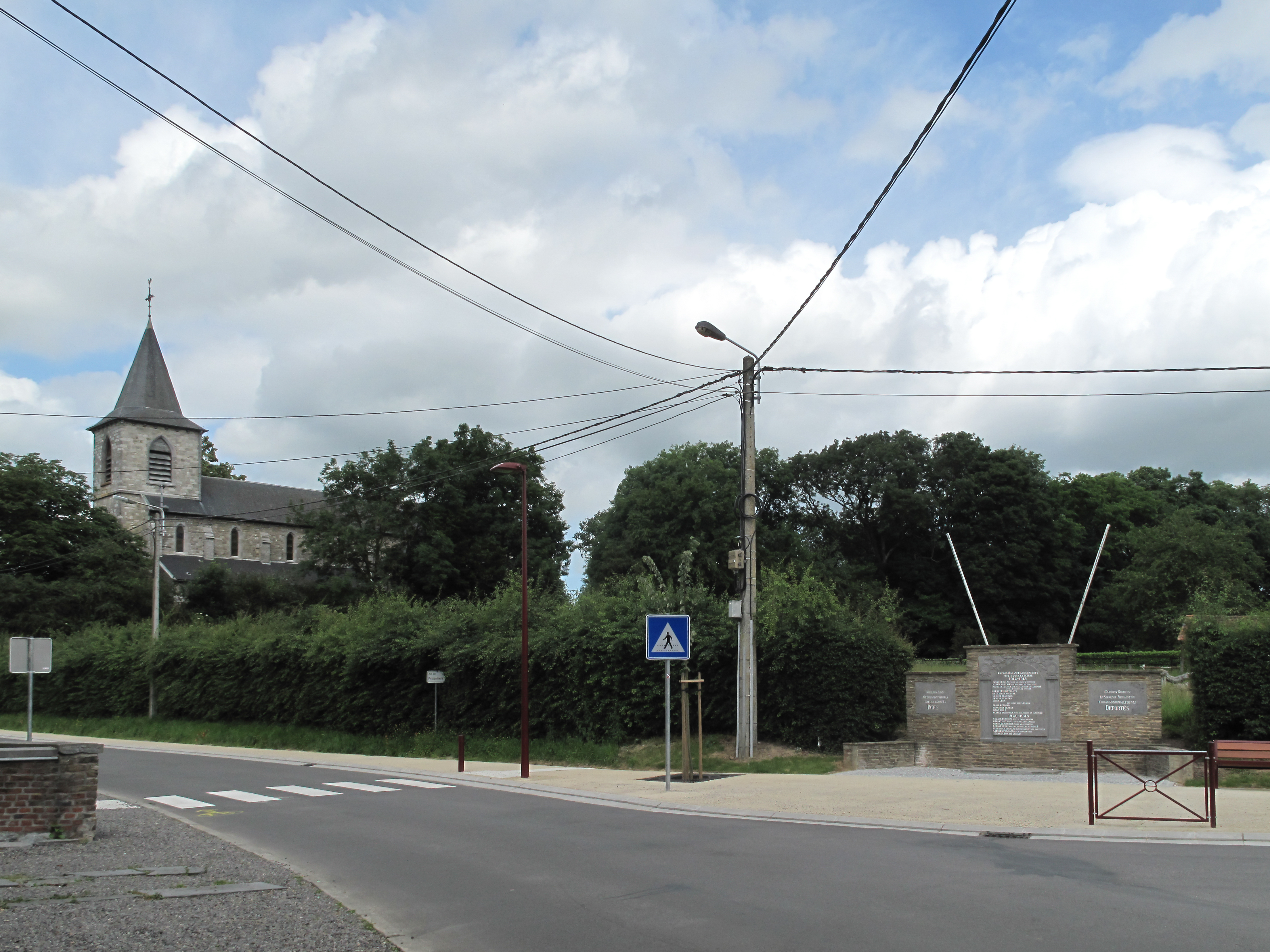 Hingeon, church (église Saint-Médard) and war memorial